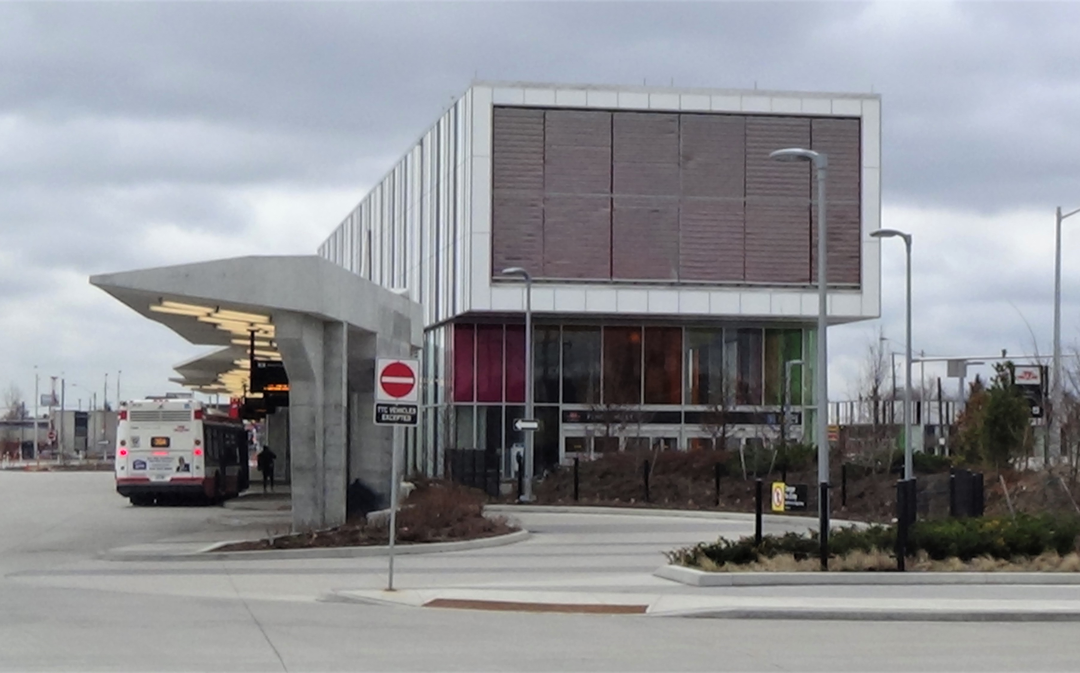 Finch West station main entrance building and bus terminal